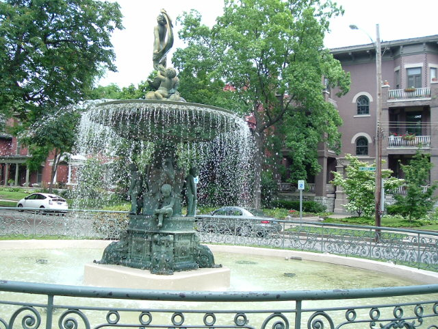 The fountain at St. James Court in Old Louisville. Taken by Jeffrey B. Morris on May 26, 2006, the year of the dog. All rights are released.